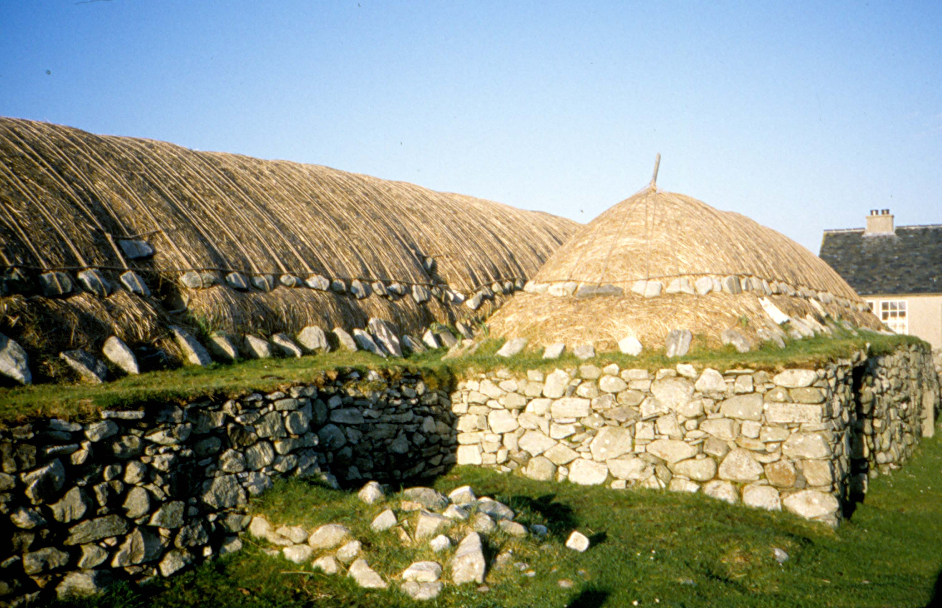 The Blackhouse Museum in Arnol, Scotland